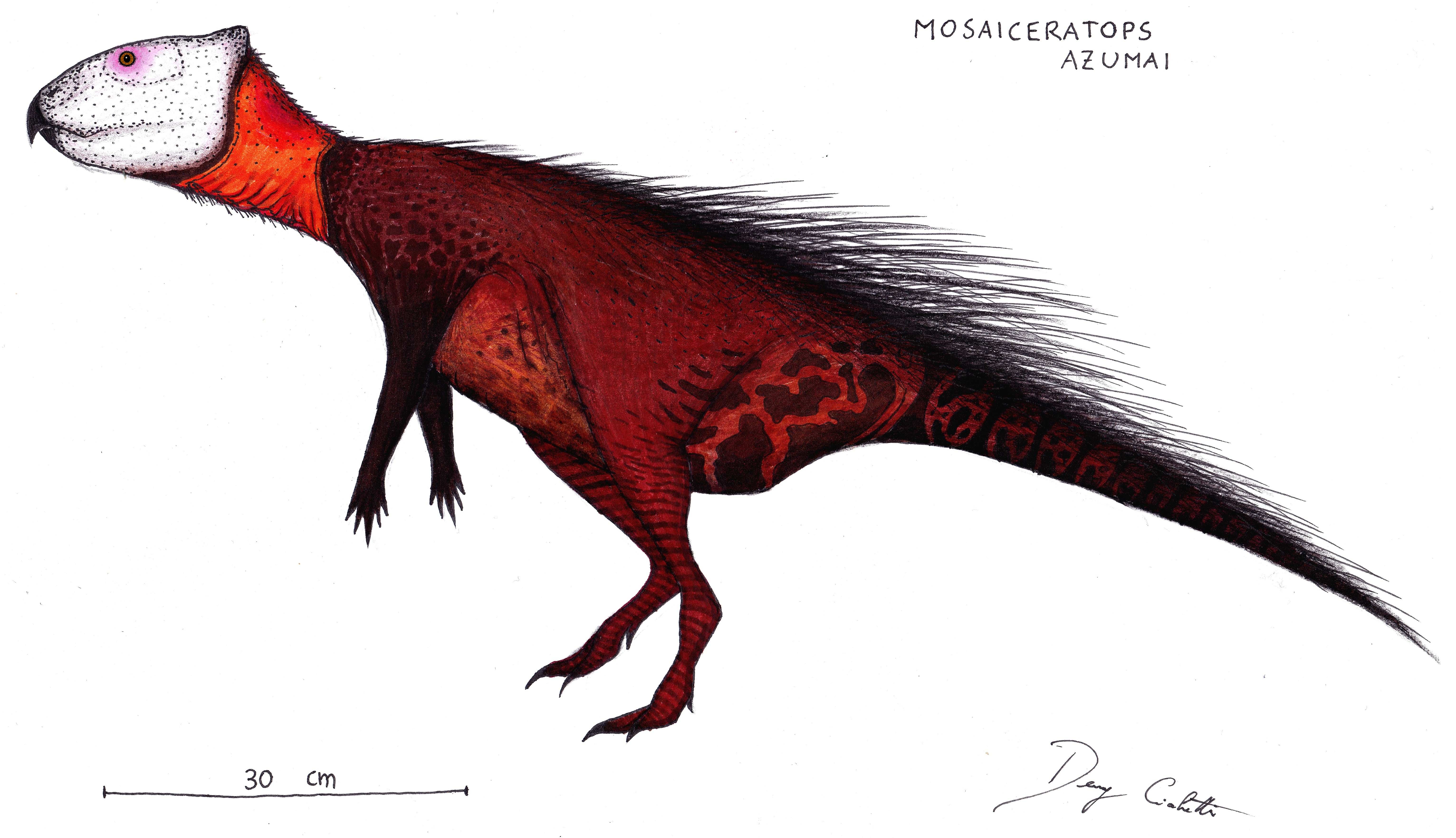 Life restoration